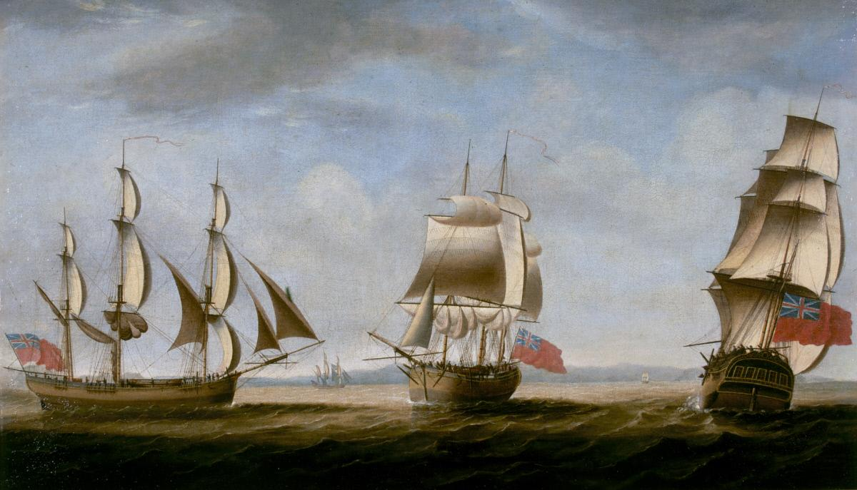 Print of the ship the Borrowdale from the First Fleet. The print shows the vessel from three angles.